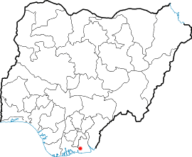 Uyo, Nigeria Location Map